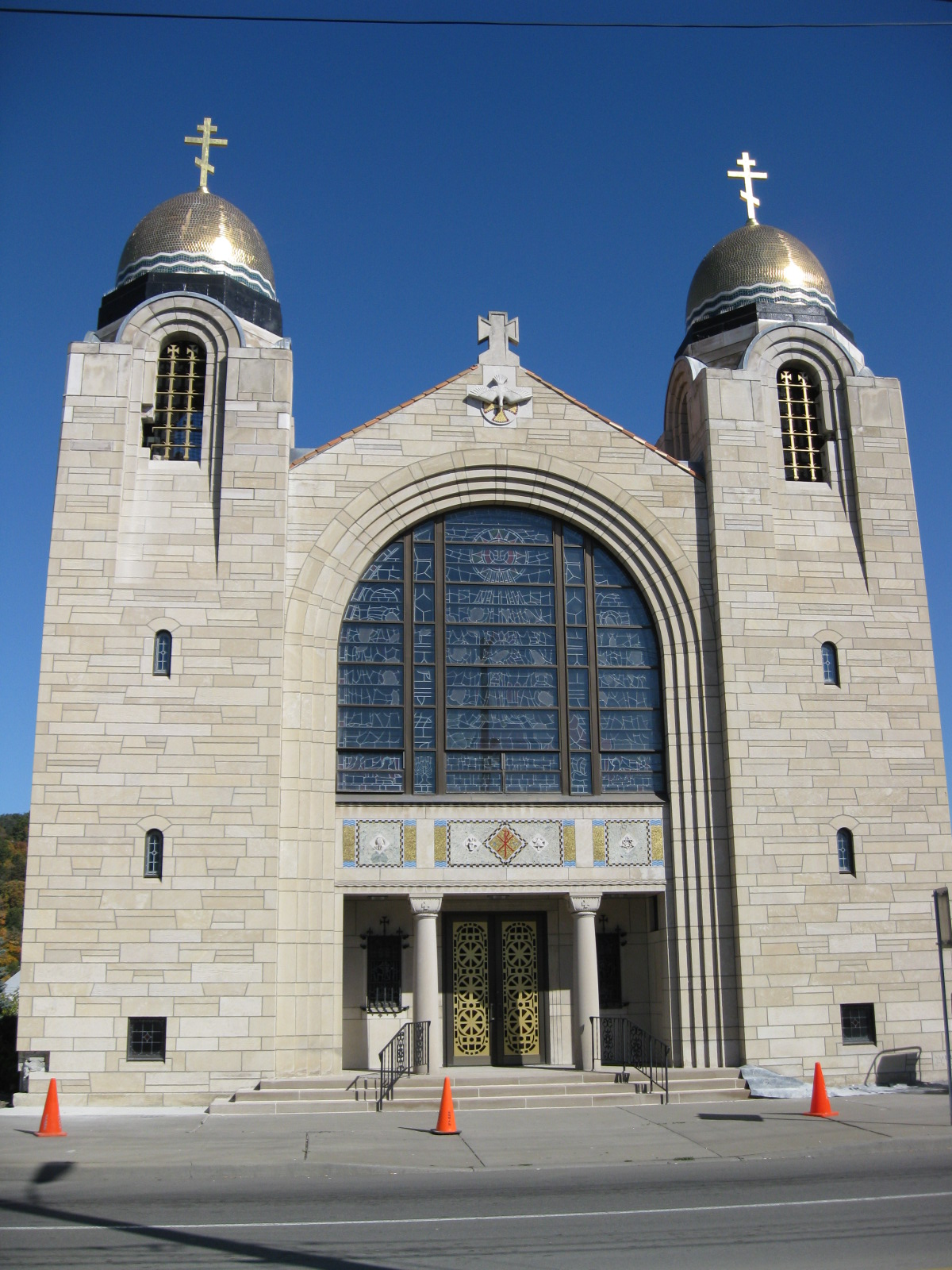 Holy Spirit Byzantine Catholic Church in Binghamton, New York, USA.